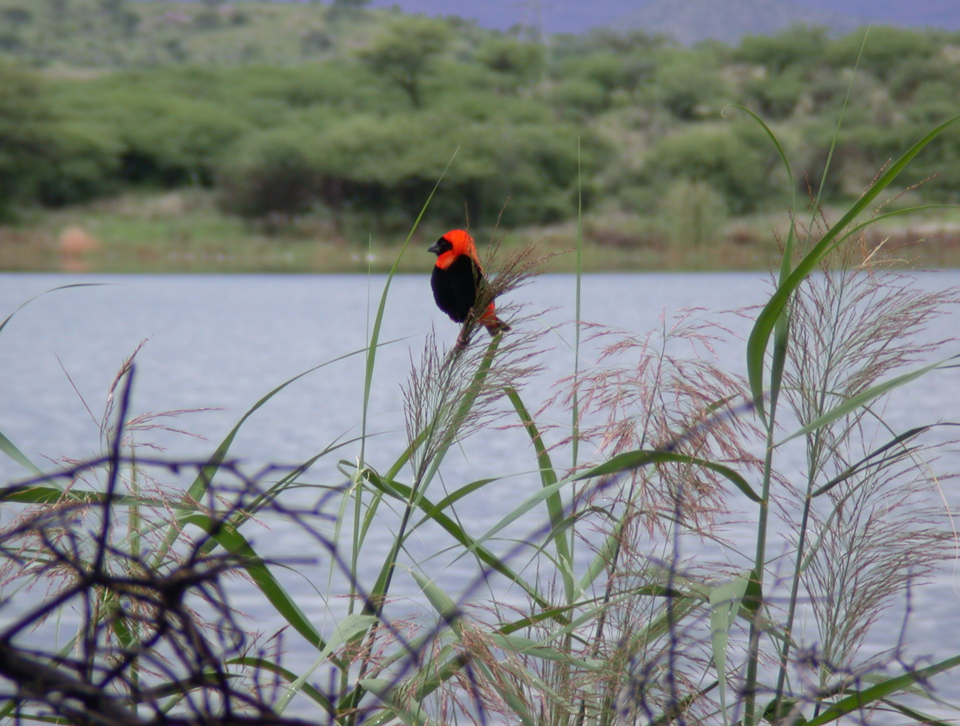 Euplectes orix (Oryxweber en: Northern/Southern Red Bishop nl: Grenadierwever) Male, picture taken at the Goreangab Dan near Windhoek, Namibia